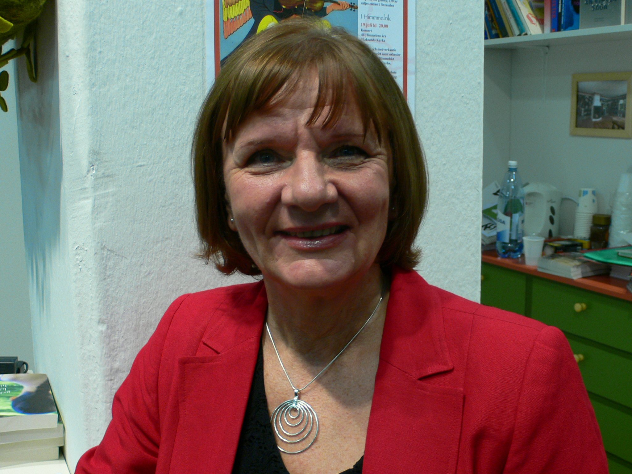 (Aino Trosell on Gothenburg Book Fair 2007, Aino Trosell på Bok- och biblioteksmässan 2007)